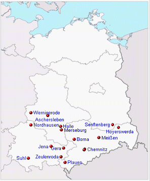 Map of New Länder with the borders of the federal states Equirectangular projection, N/S stretching 150 %.